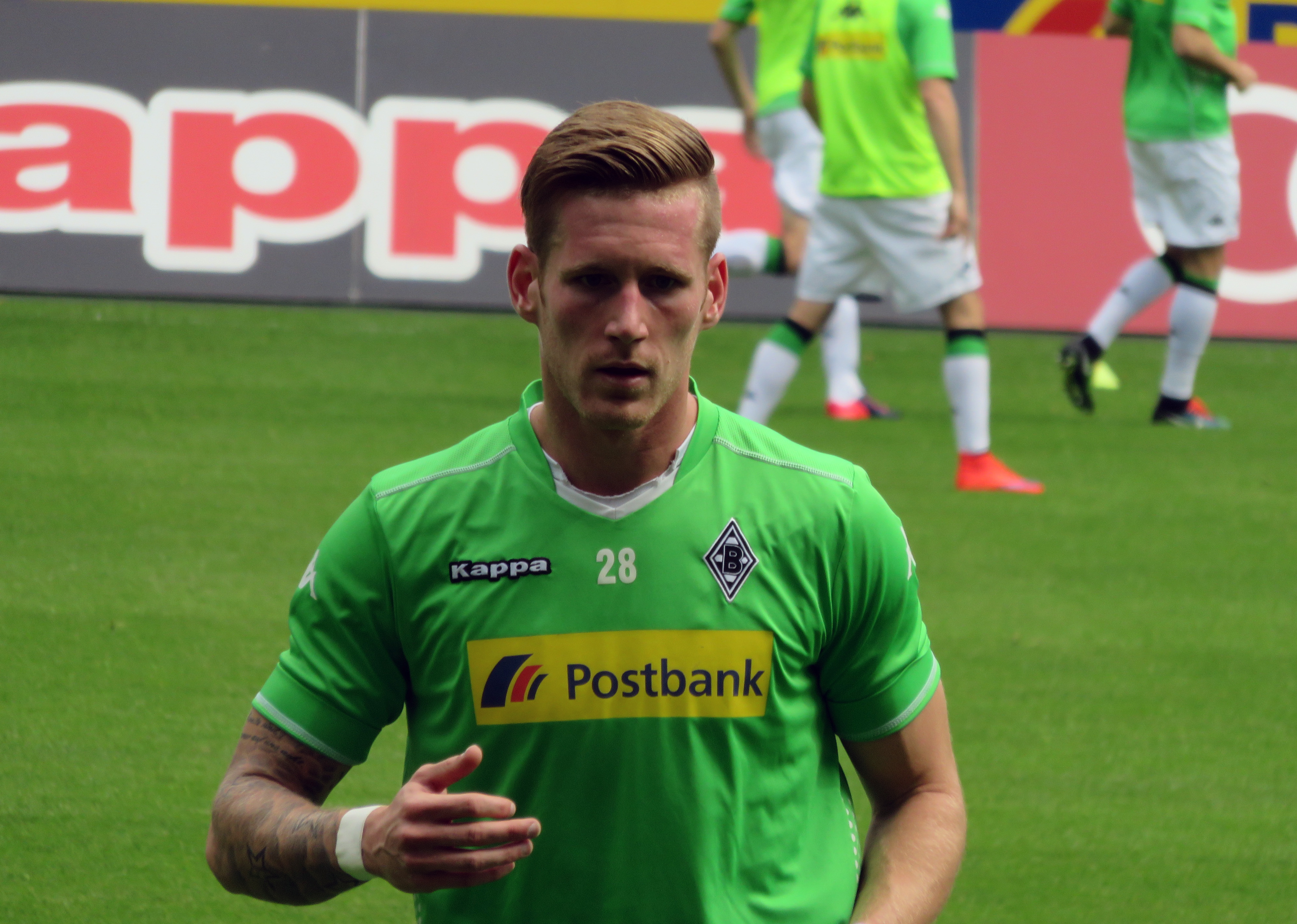 Andre Hahn